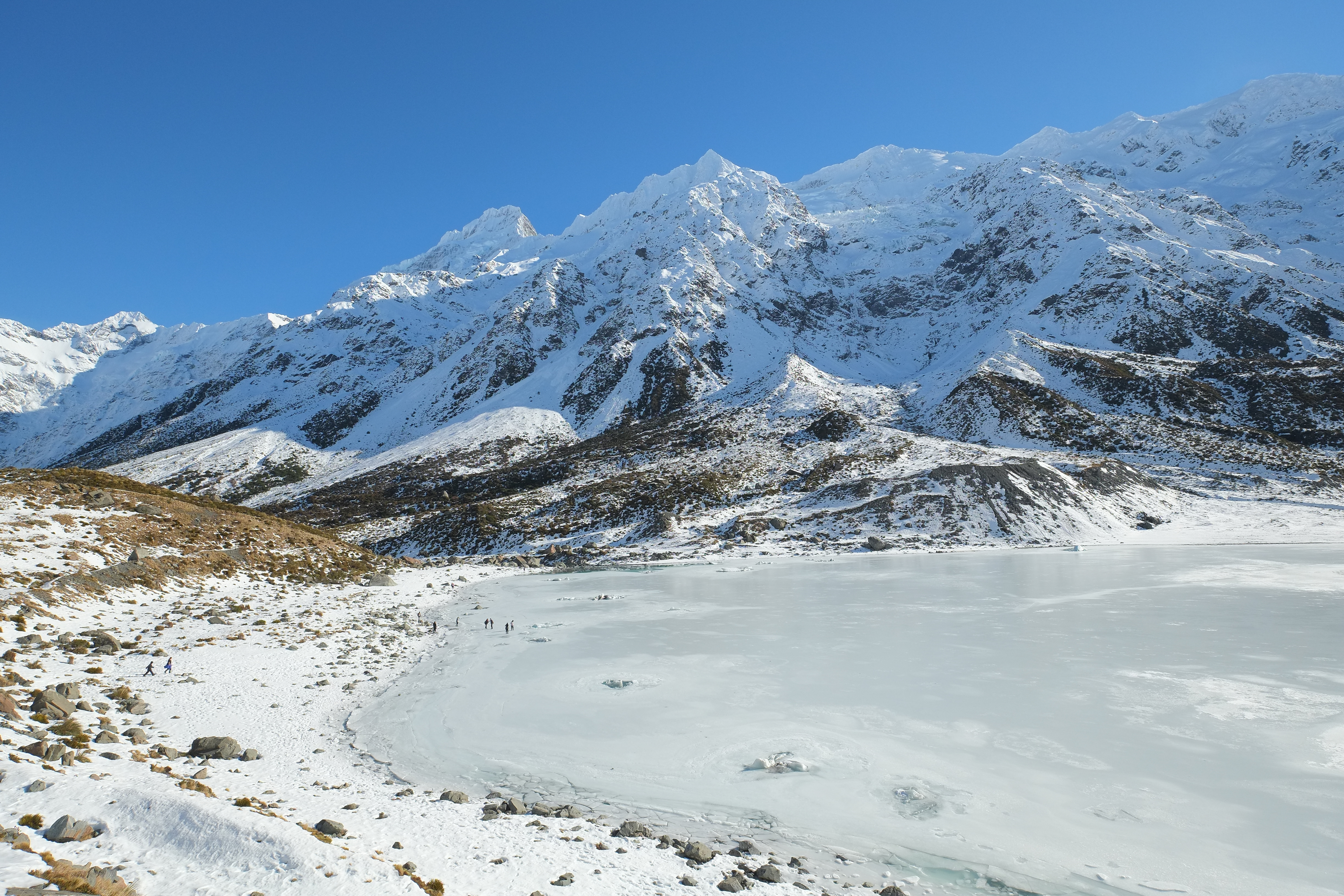 View down to shore of frozen Hooker Glacier Lake in winter